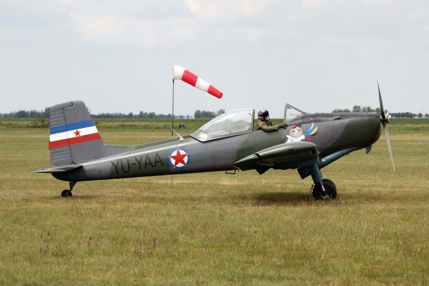 Airshow on Čenej airport, Novi Sad. J-20 Kraguj YU-YAA